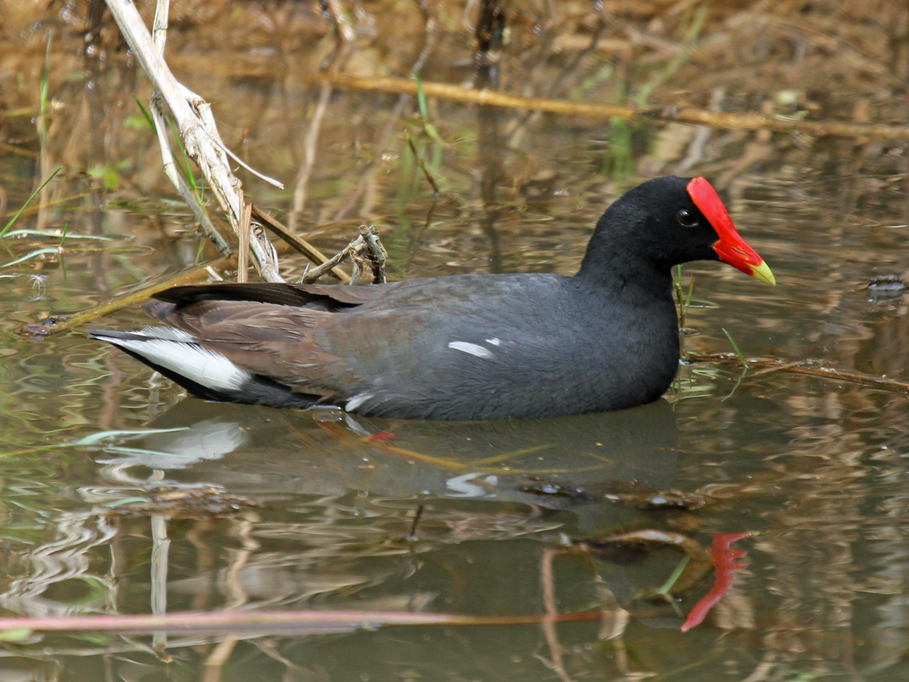 Hawaiian Common Gallinule, also Common Gallinule, also Hawaiian Gallinule (Gallinula galeata sandvicensis - Kauai, Hawaii near the town of Hanalei (made famous in the song Puff the Magic Dragon).